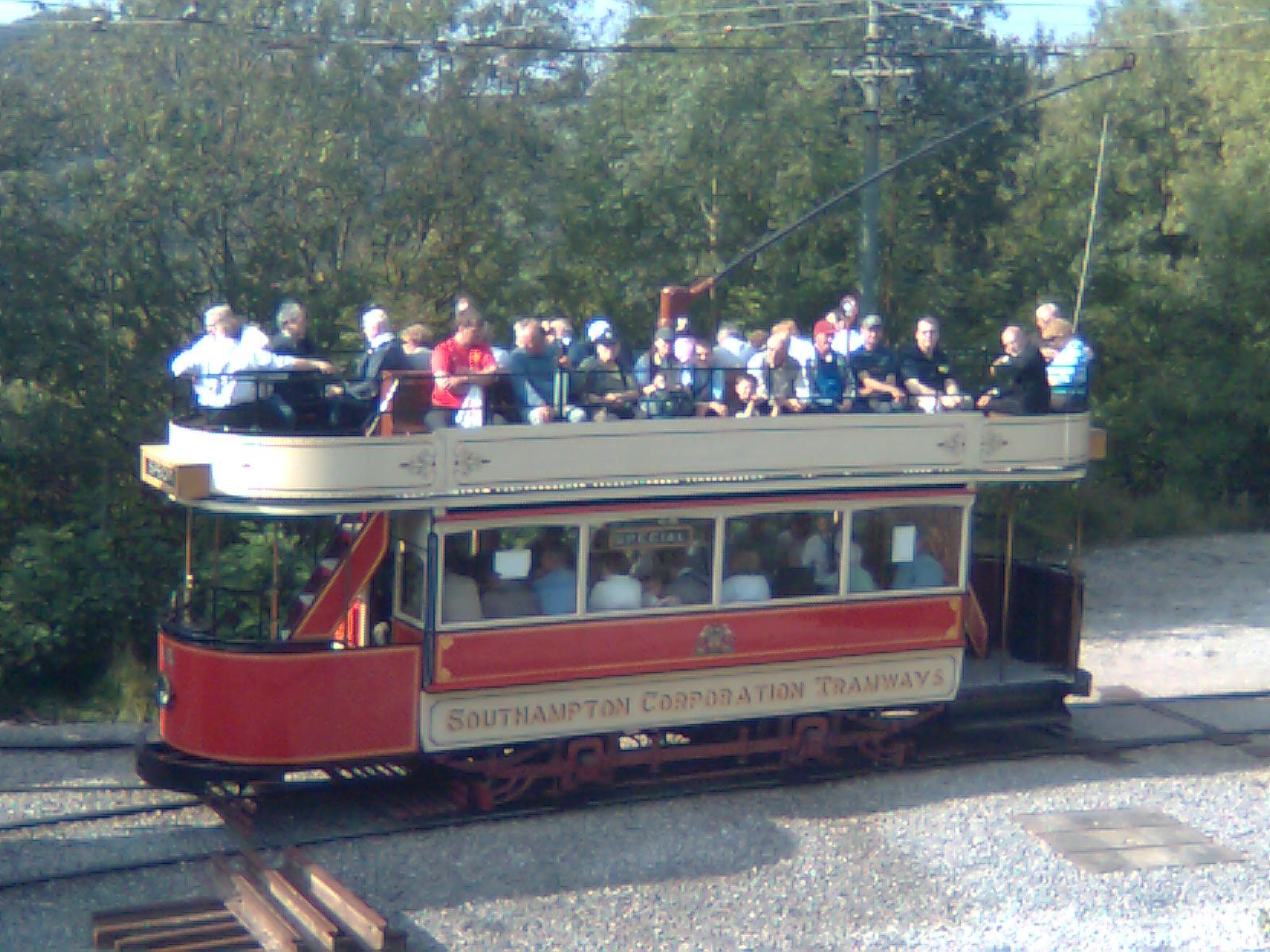 Southampton 45 at the National Tramway Museum's Northern Terminus of Glory Mine. It is on the Northbound track during Enthusiasts' Day 2008. It was forming part of a special "Enthusiasts' Tour" to celebrate 60 years since it's preservation.